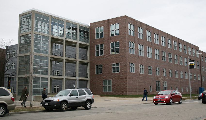 The University of Wisconsin-Milwaukee School of Architecture and Urban Planning, looking northwest across Maryland Avenue, at the back of the building (more interesting than the front, and possibly more often seen).